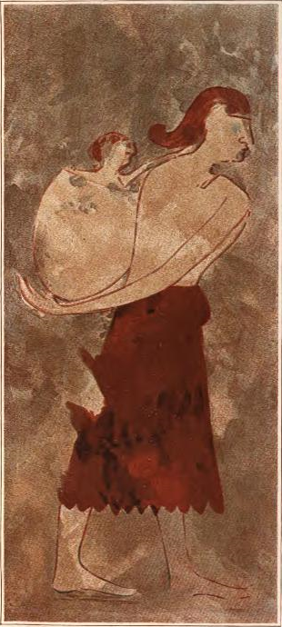 Painting of a group of foreigners (Libyan), who are being led by an Egyptian superintendent; from the east wall of the tomb BH14 of nomarch Khnumhotep I at Beni Hasan. Reign of Pharaoh Amenemhat I, early 12th Dynasty, Middle Kingdom. [Percy Newberry, Beni Hasan part I, pl. XLV]